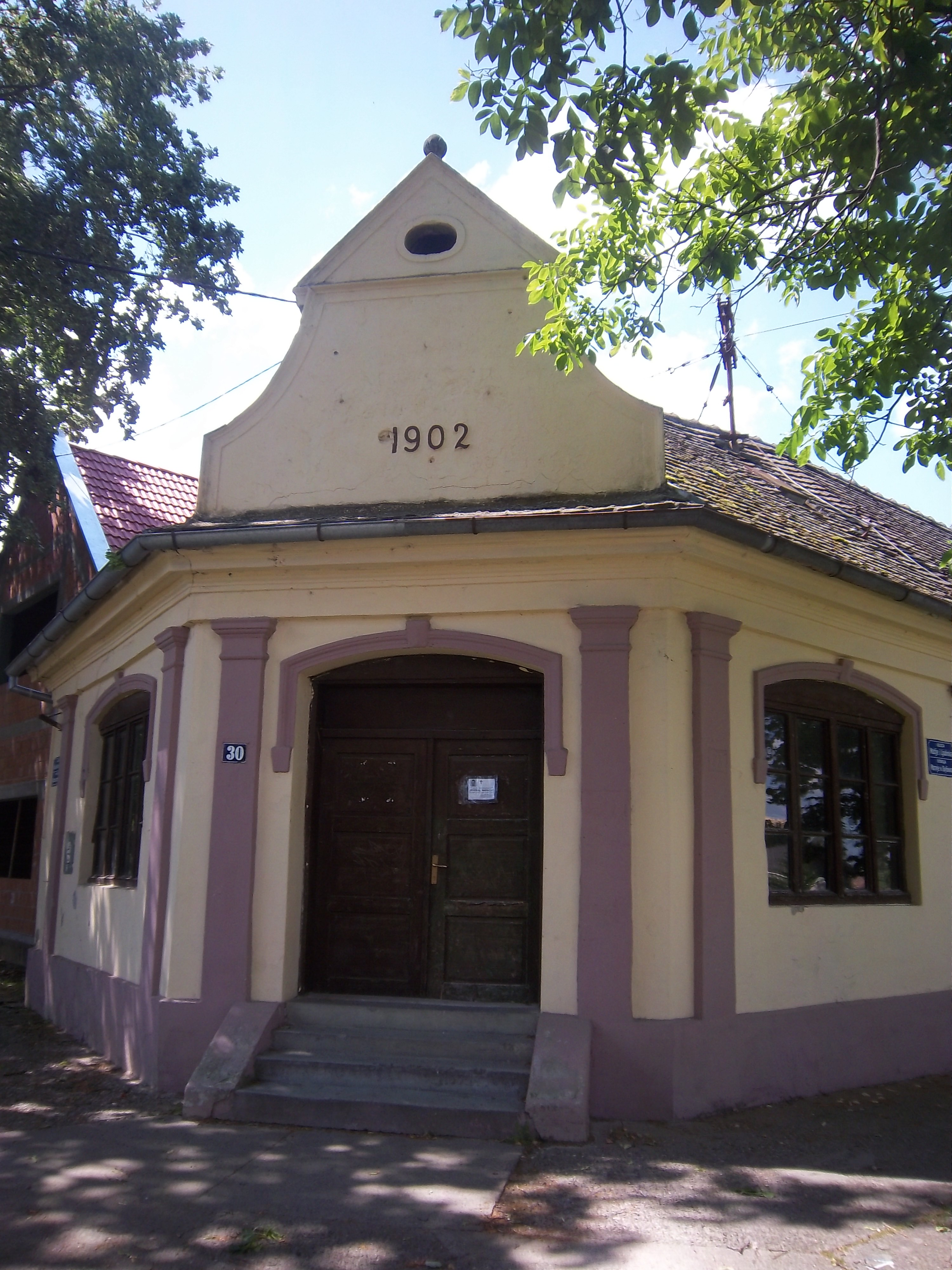 Ostrovo, Markušica, Croatia